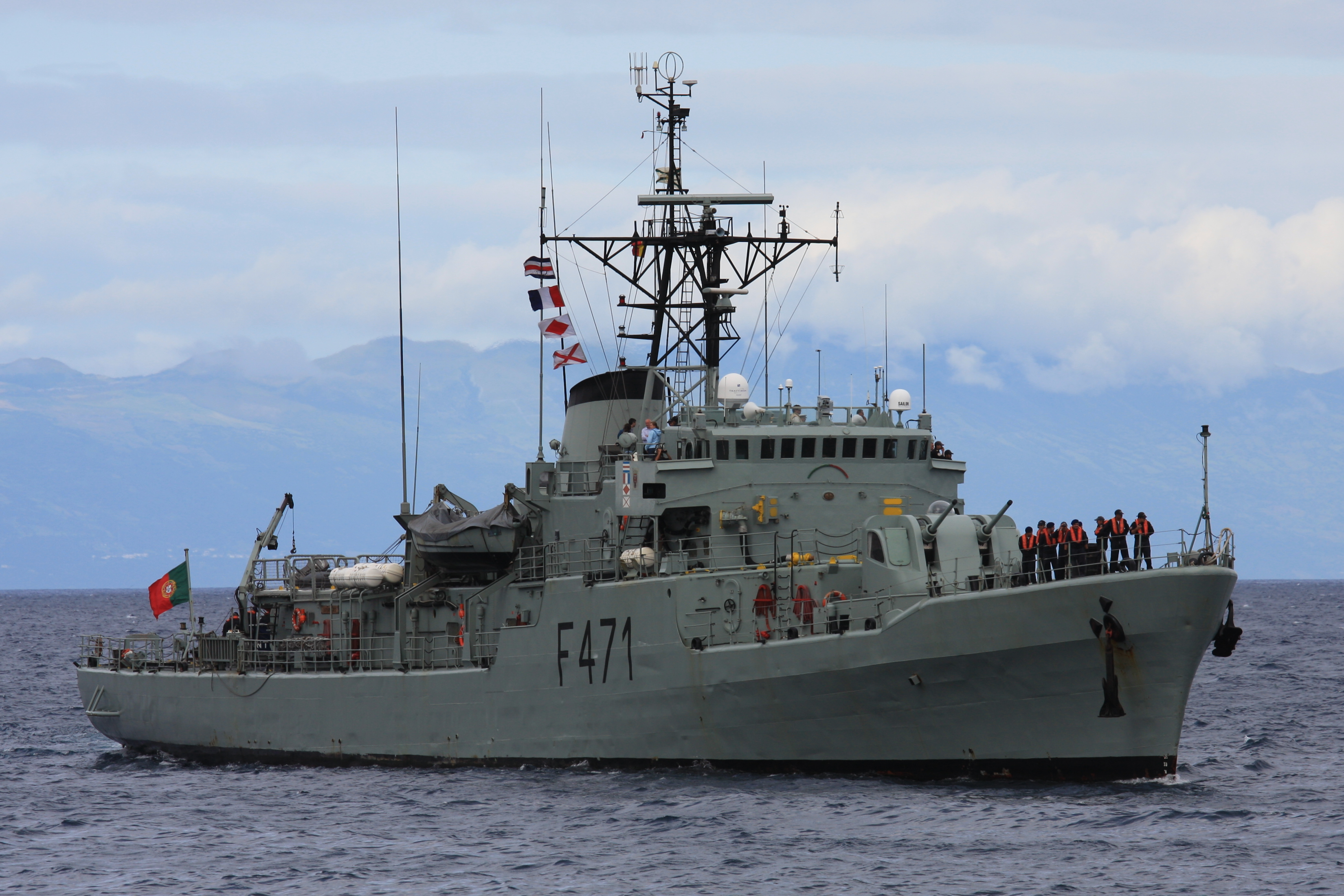 The corvette António Enes (F-471) of the Portuguese Navy entering the port of Horta, Azores.